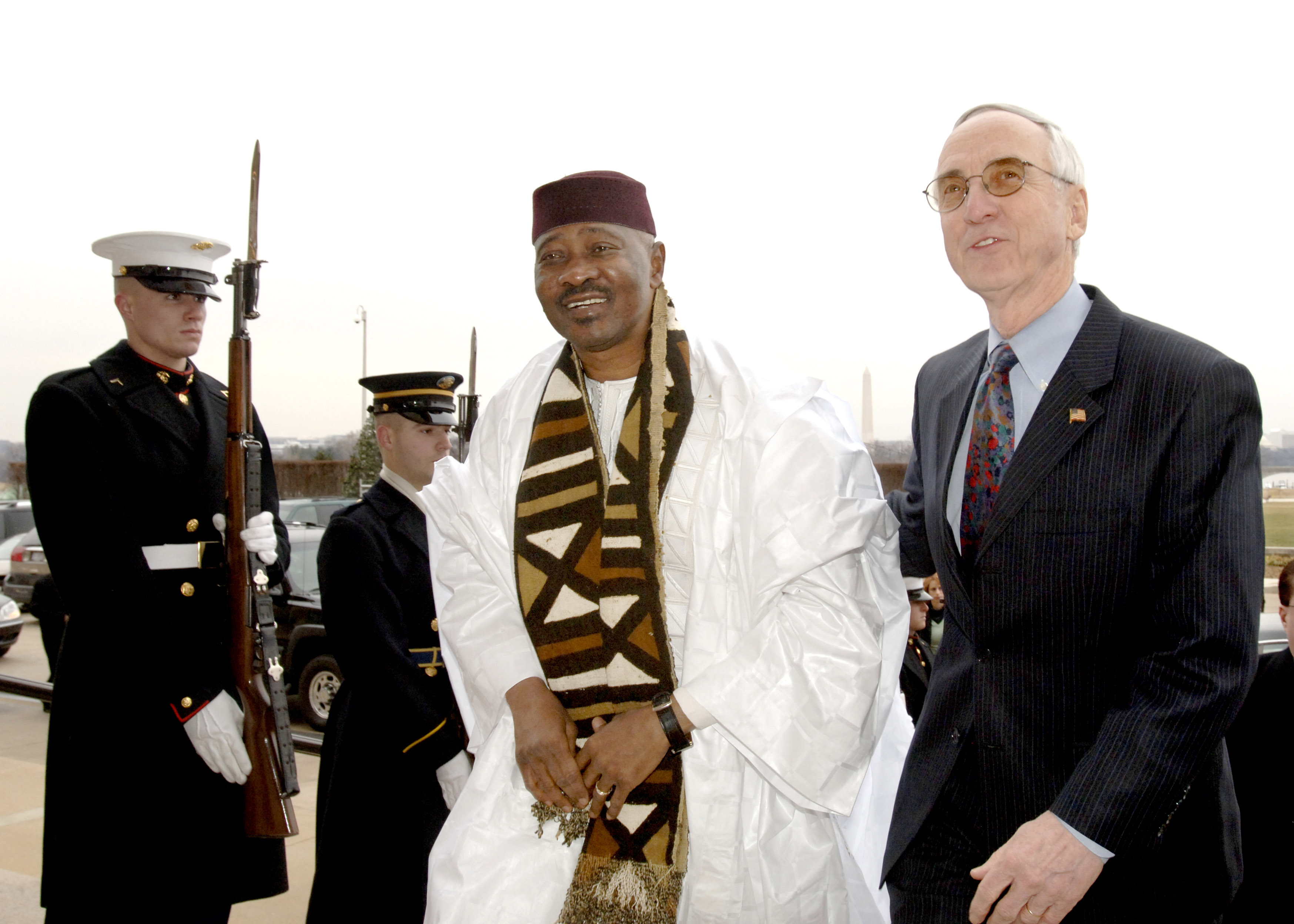 Deputy Secretary of Defense Gordon England (right) escorts Malian President Amadou Toumani Toure through an honor cordon and into the Pentagon on February 12, 2008.